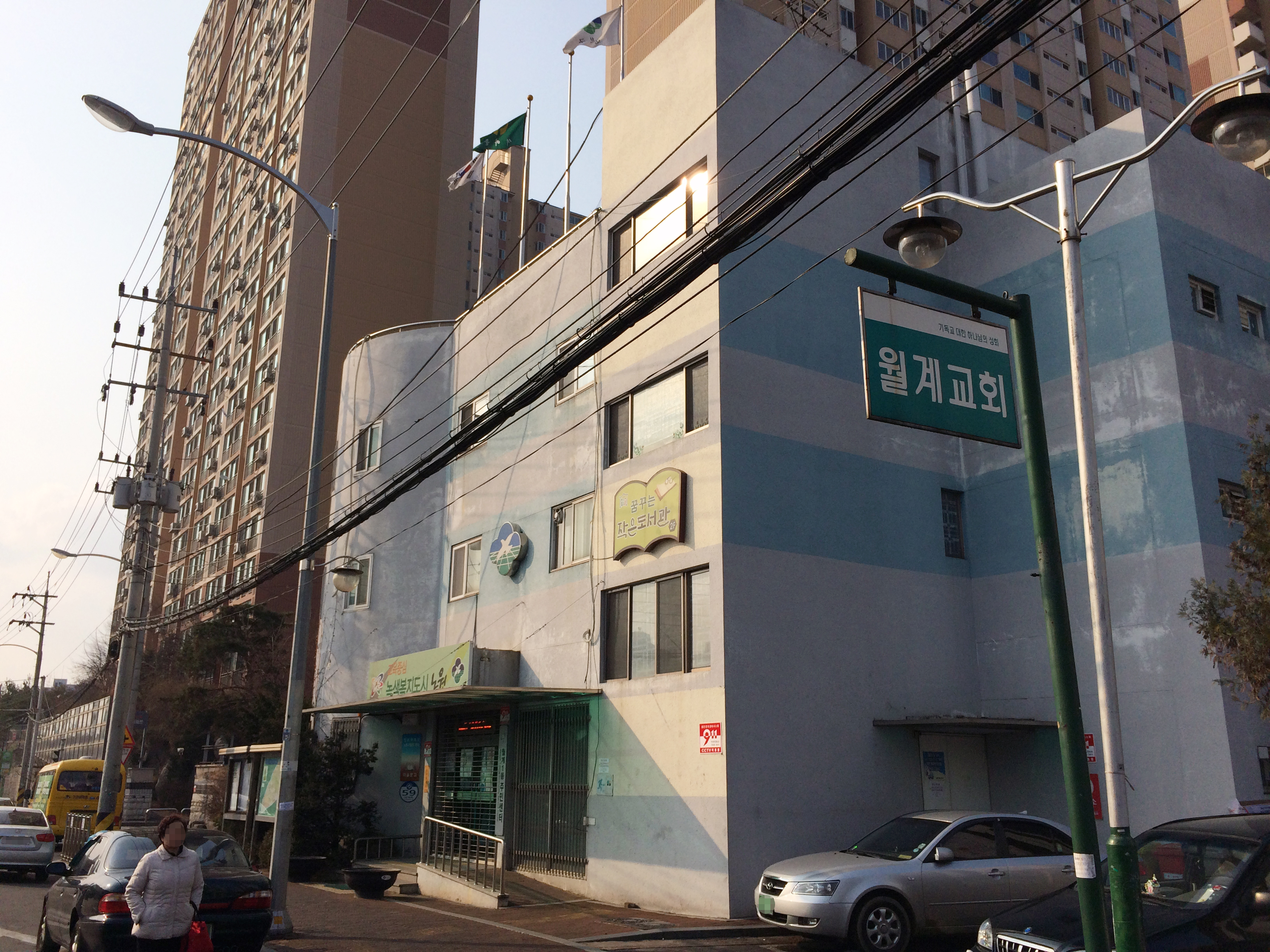 Wolgye 1-dong Comunity Service Center (Nowon-gu)